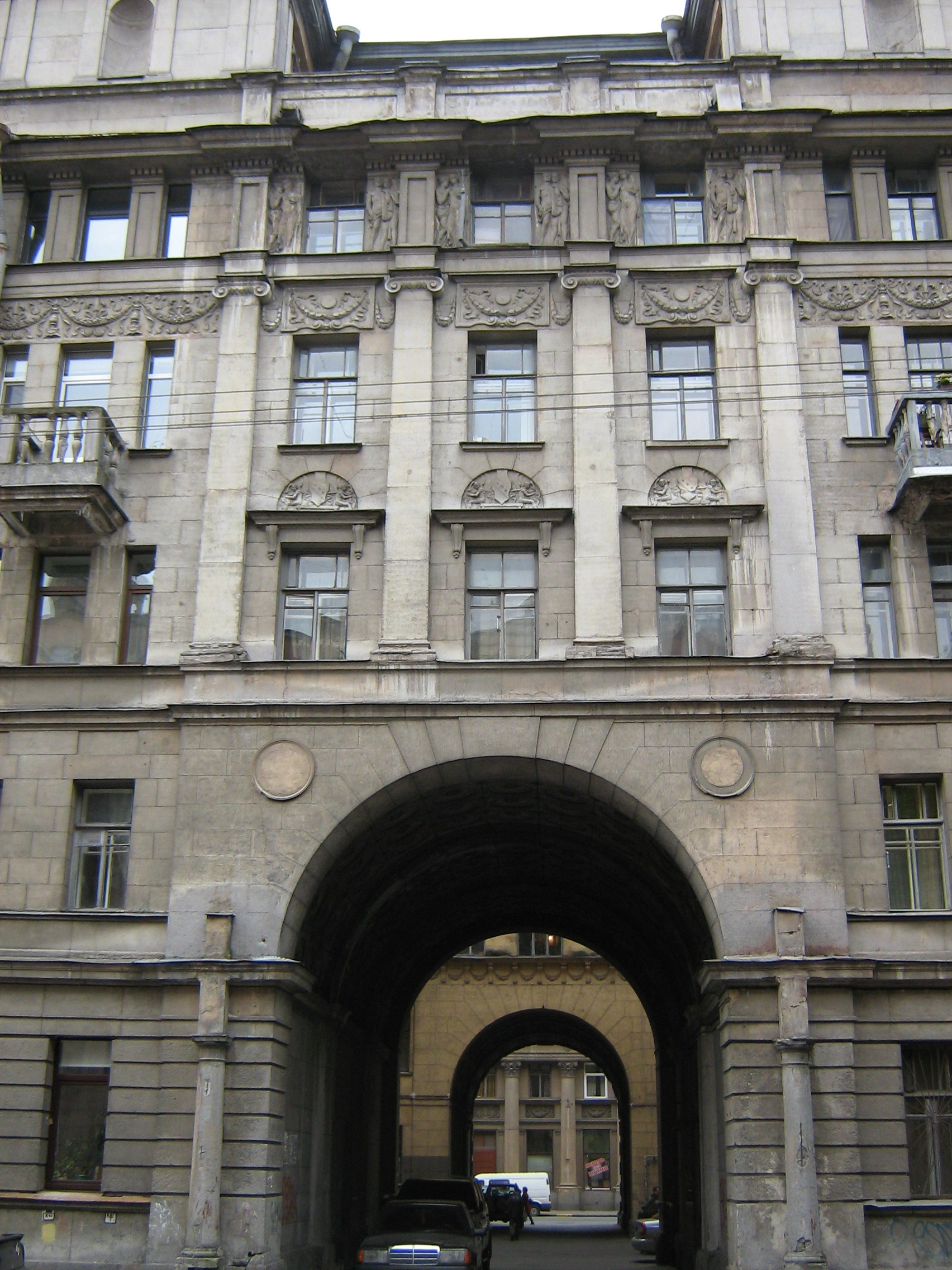 28, Polozova street, Saint-Petersburg, Russia. House of Alexander Lishnevsky, his own project (with participation of A. Turkovsky), 1912-1913.